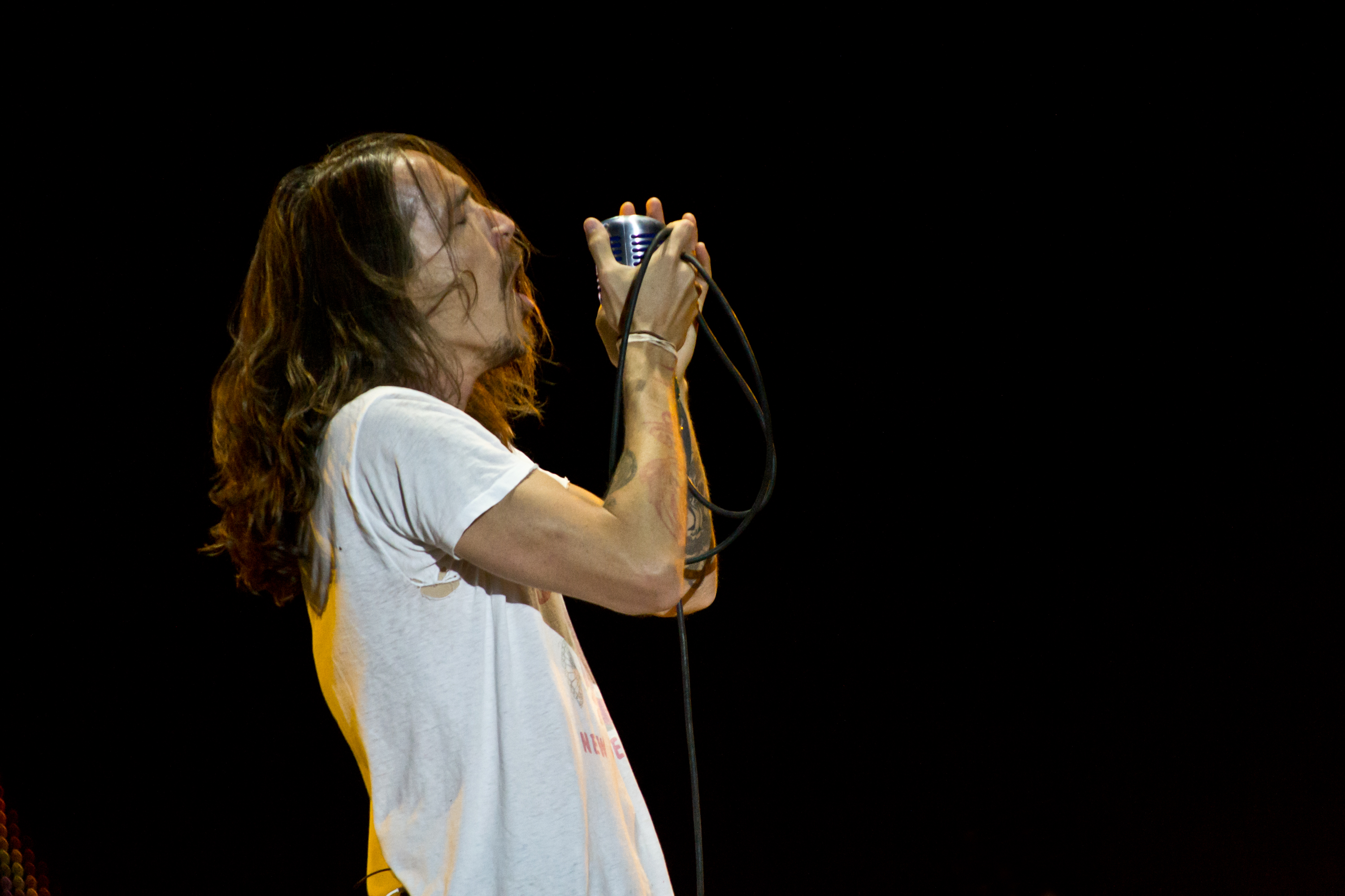 Incubus in Rock in Rio Madrid 2012.